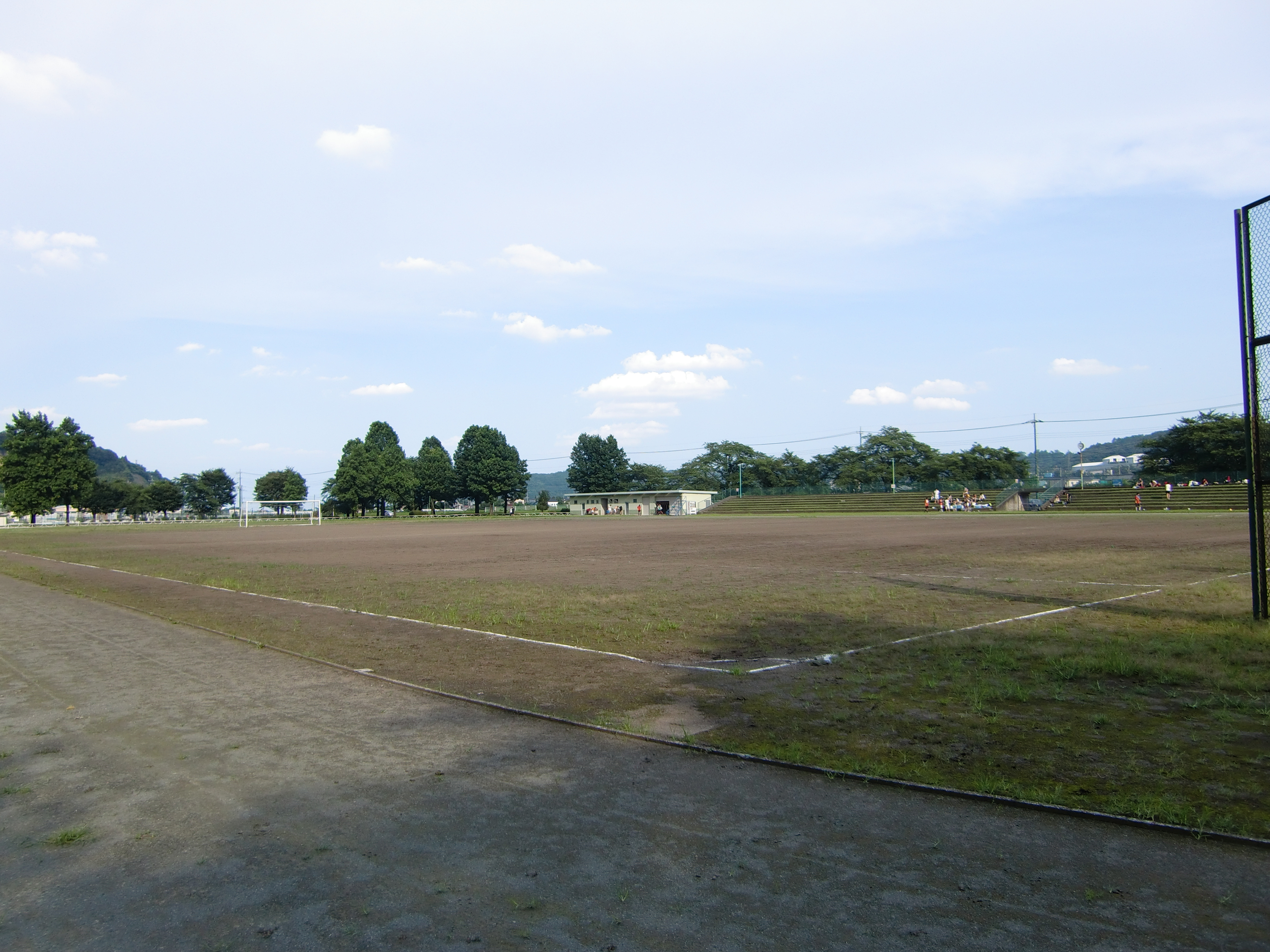 Seimohsportspark.Gunma-Ken